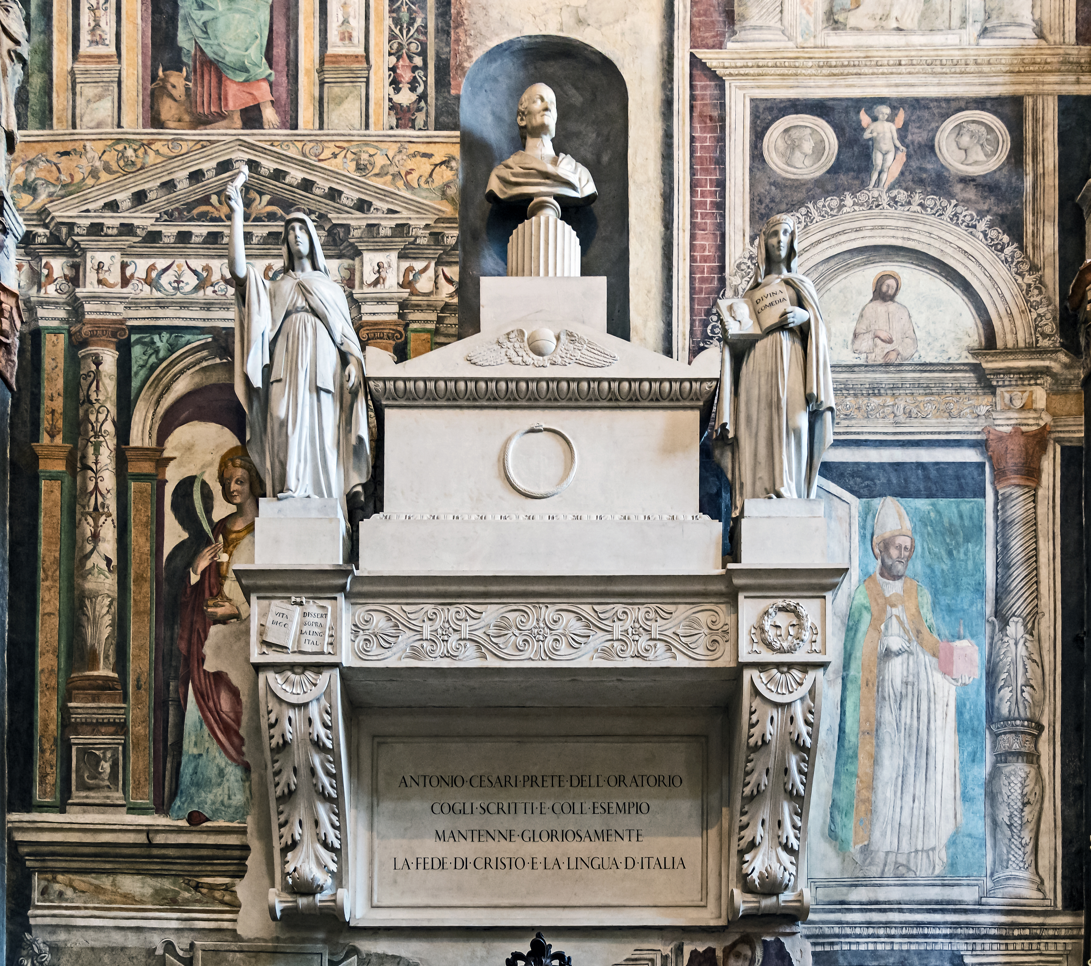 Cathedrale Santa Maria Matricolare. Monument to Antonio Cesari